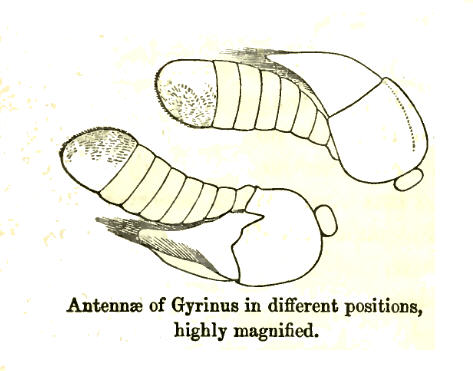 Antennae of Gyrinus beetle (Whirligig)